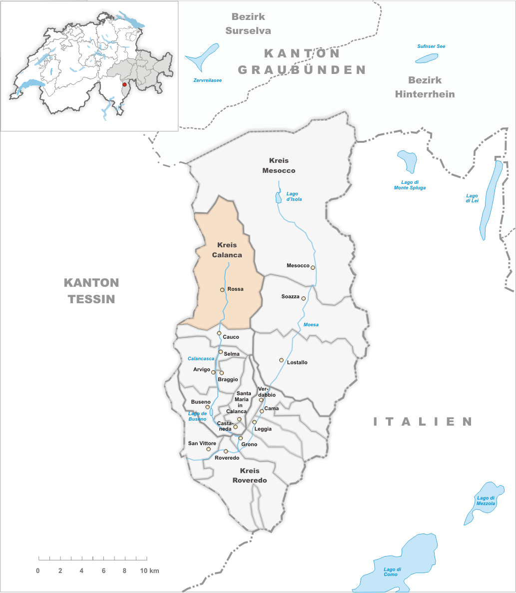 Municipality Rossa